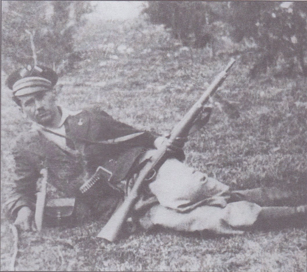 Hristo Naskov Ezerets